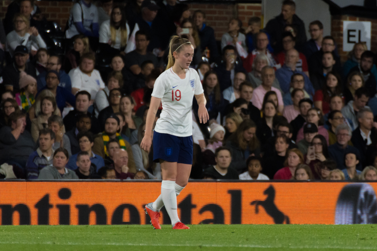 Keira Walsh vs Australia on 9 October 2018